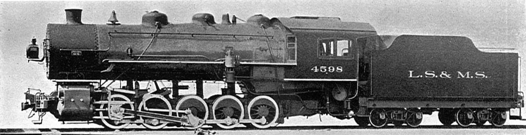 "Decapod" Switching Engine for the Lake Shore and Michigan Southern Railway